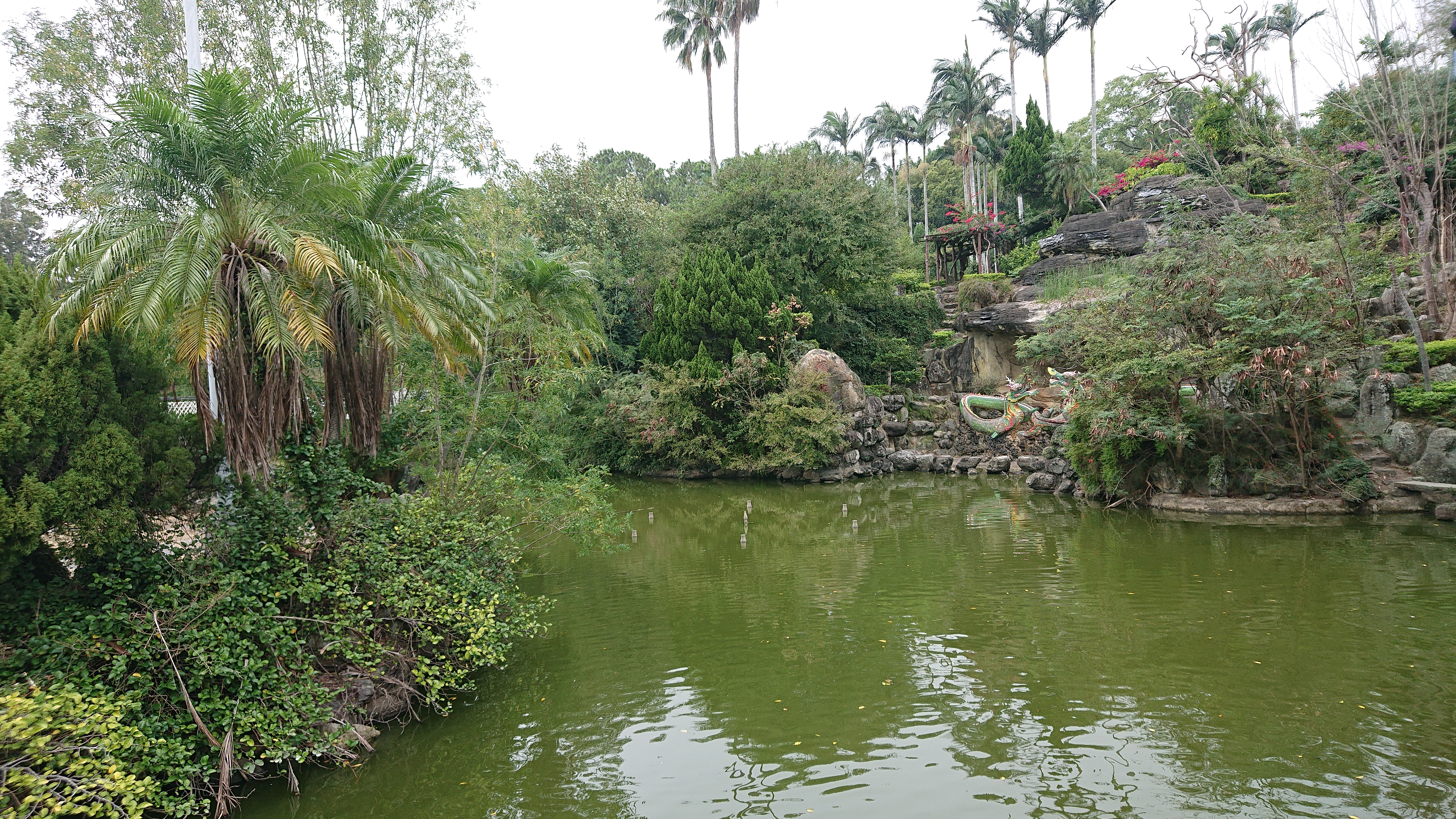 Baozhong Yimin Temple sightseeing garden of the landscape.